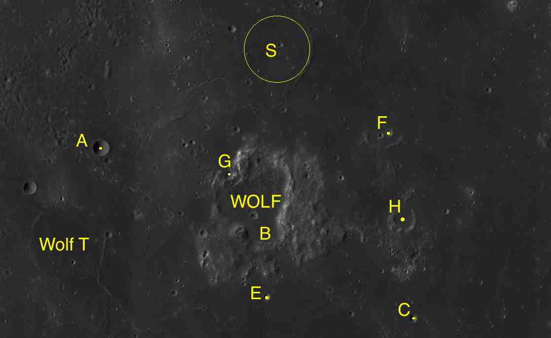 Part of the chart LAC-94 used for the presentation